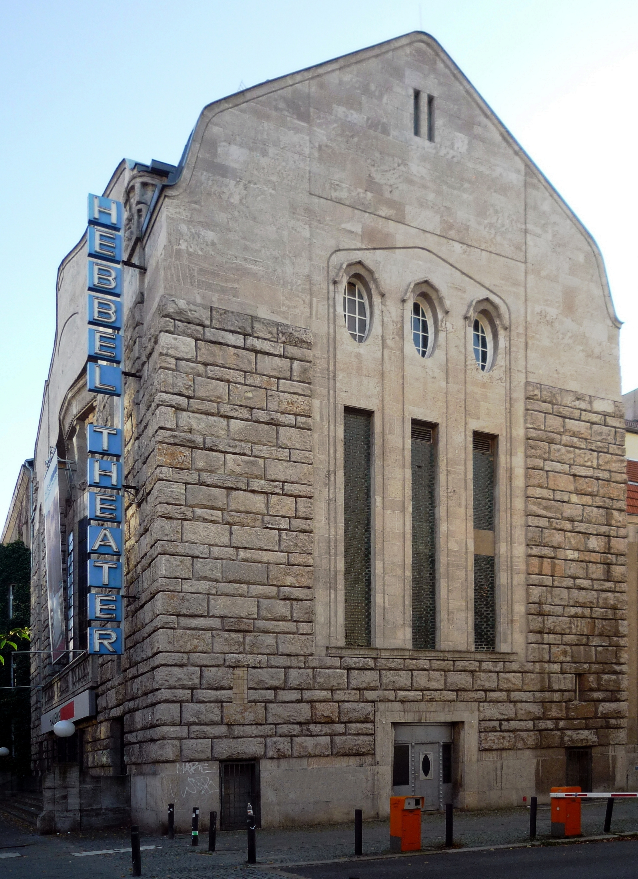 The Hebbel-theatre in Berlin-Kreuzberg. Built 1907/1908. View from west.